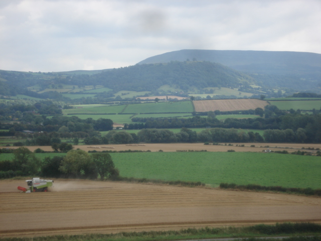 Corn harvest near Llowes With the A438 in the foreground and Hay Bluff in the distance.